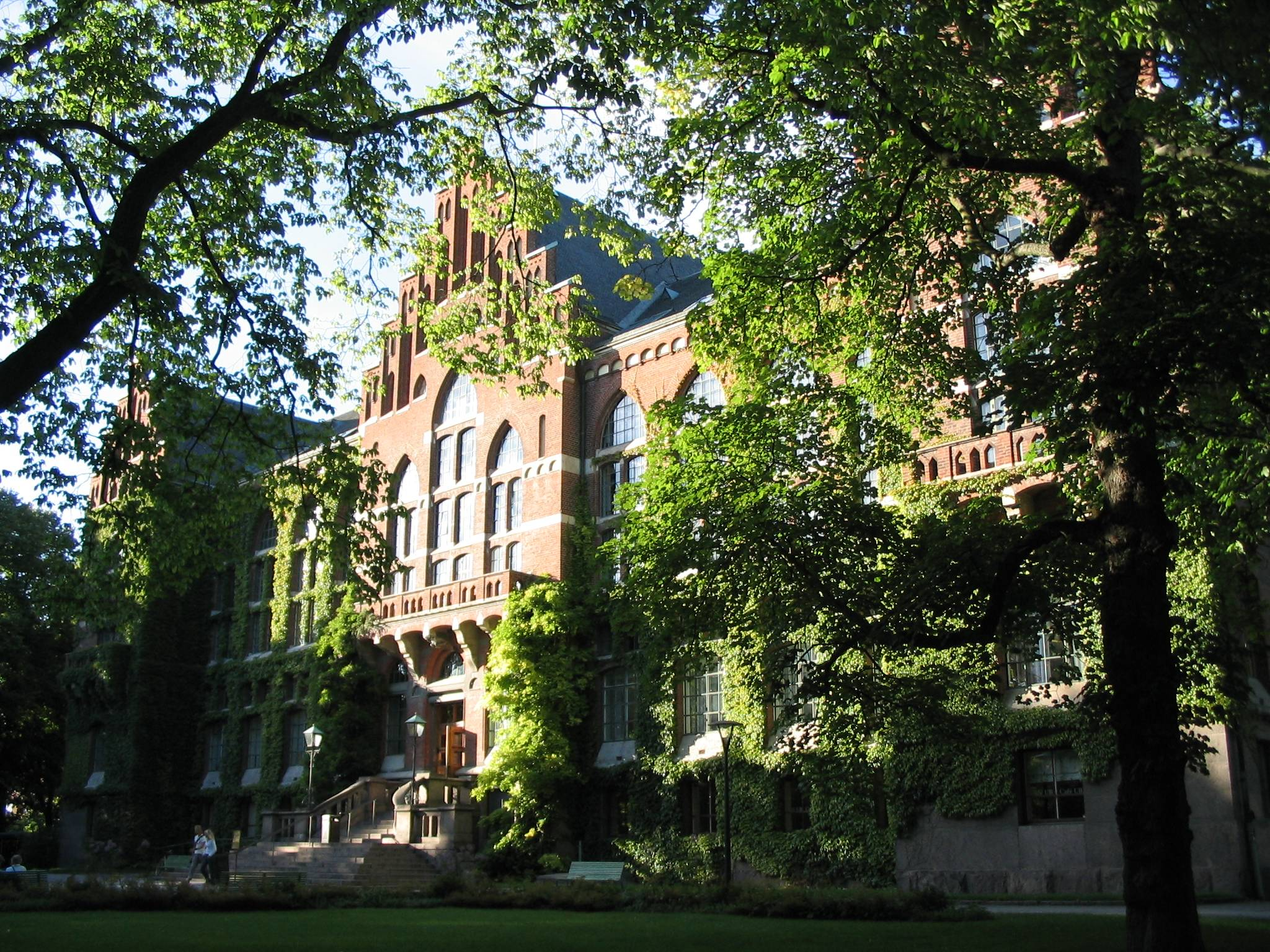 Lund University Main Library i made this photo myself, august 2005